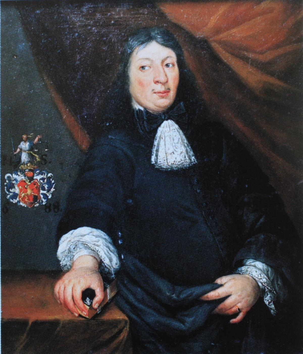 Veit Hans Schnorr von Carolsfeld, 43 or 44 years old